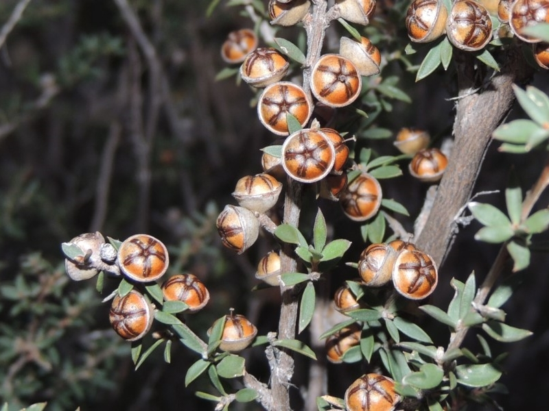 Fruit and leaves of Leptospermum multicaule near Chisholm in the Australian Capital Territory